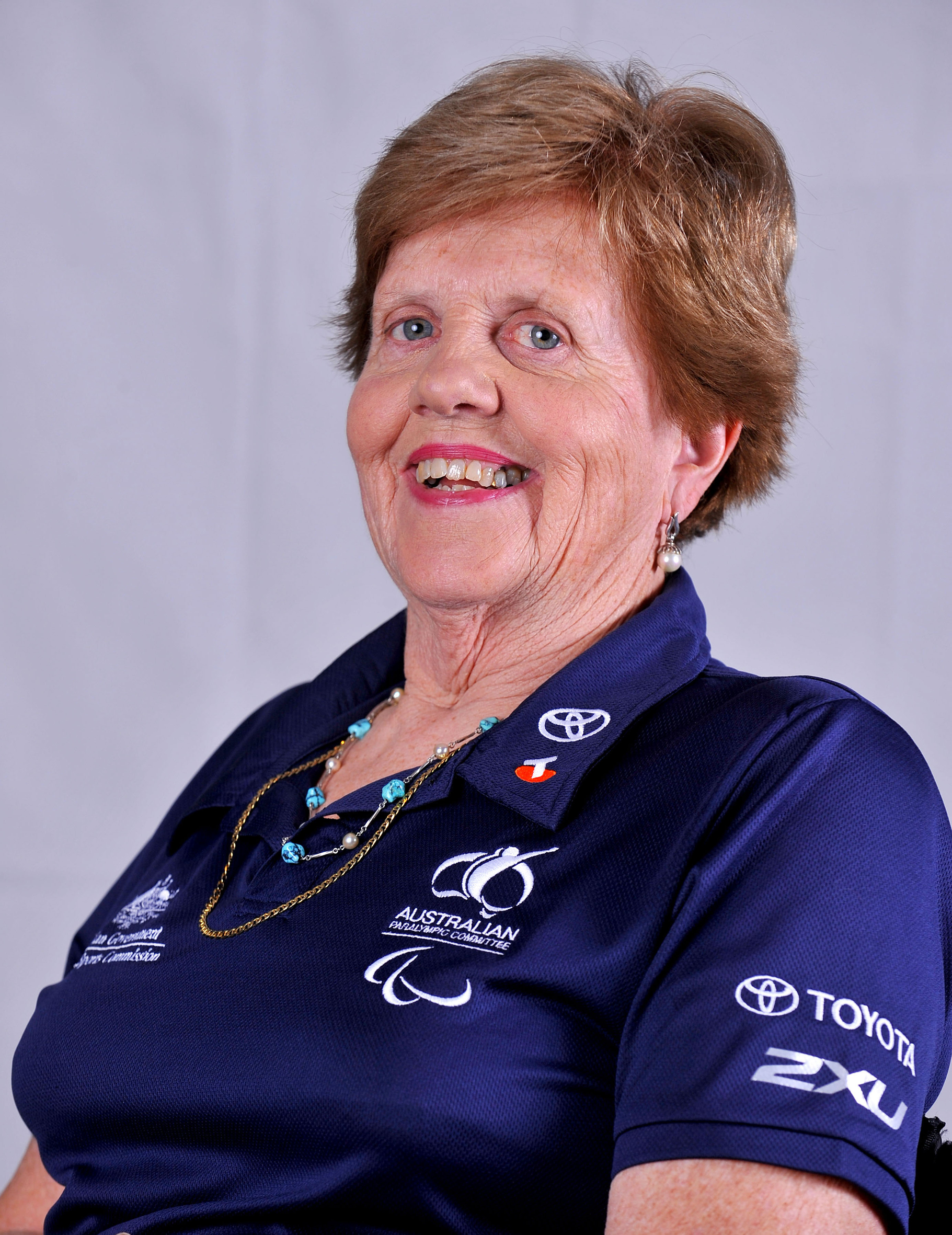 Portrait of Australian shooter Libby Kosmala, 2012 Australian Paralympic (shadow) Team athlete